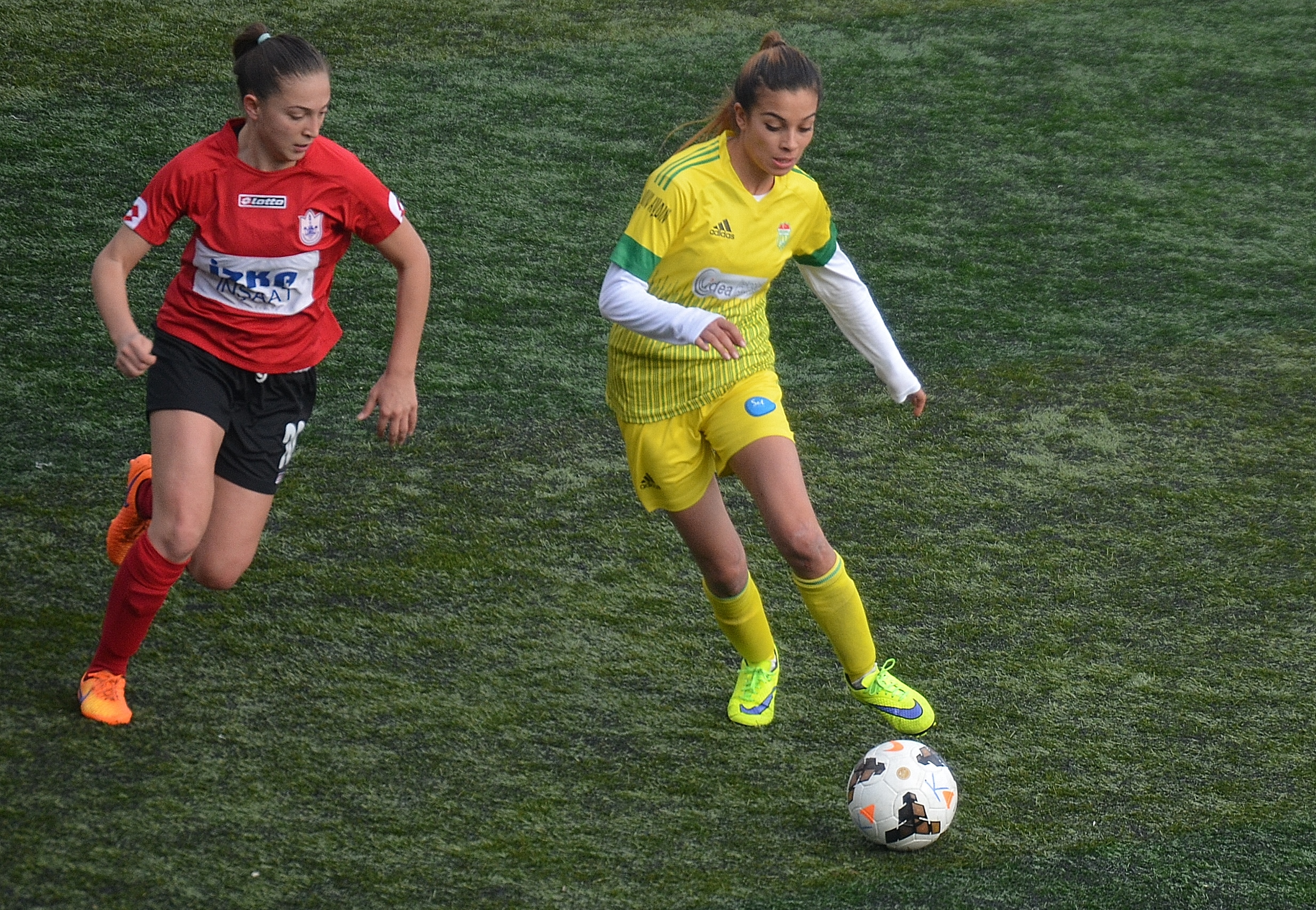 Sevgi Salmanlı (right) of Kireçburnu and Özge Özel (left) of Konak Belediyespor in the 2015-16 season